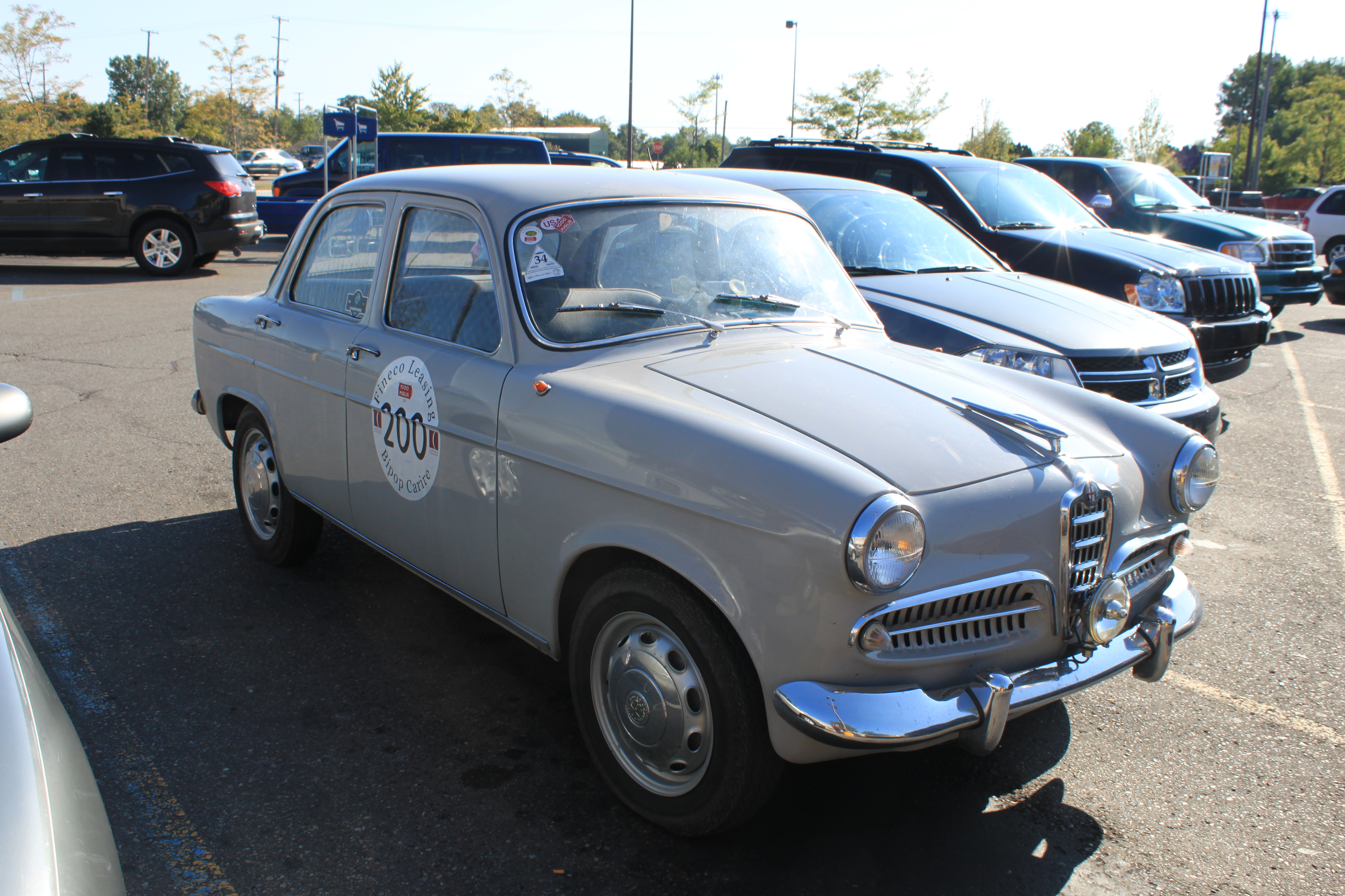 1955 Alfa Romeo Giuletta Berlina Prima Jerie, Carpenter Plaza Shopping Center, 3200 Carpenter Road, Pittsfield Township, Michigan. My identification of the car is based on the one at this web page